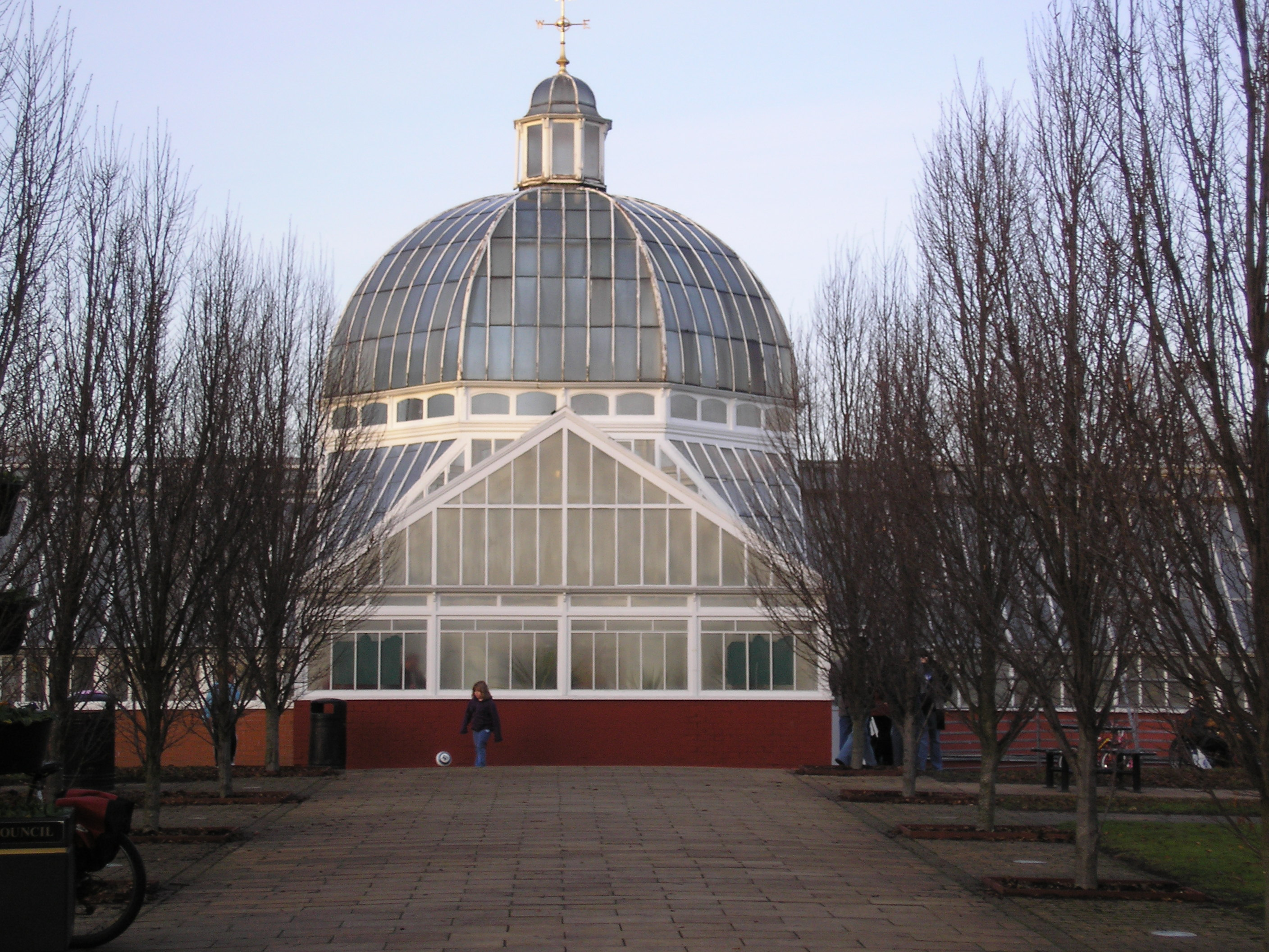 External view of the Glasshouse in Queens Park on the Southside of Glasgow, UK